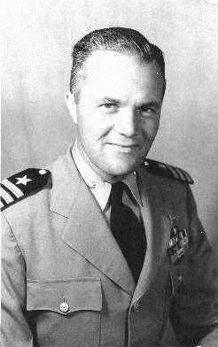 Commander Edward L. Beach, USN